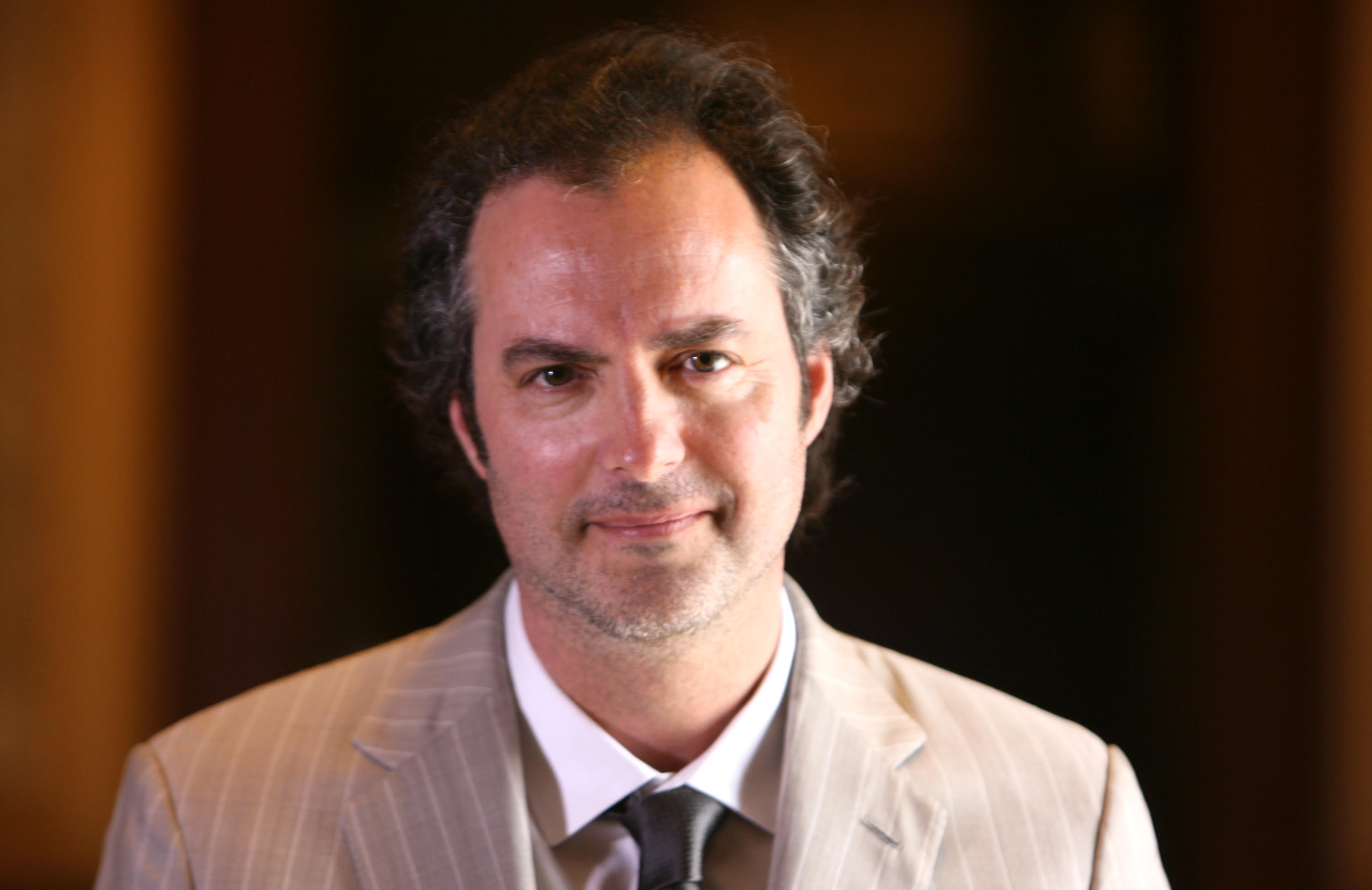 Jon Fisher on Friday, February, 3rd 2017 in San Francisco, California